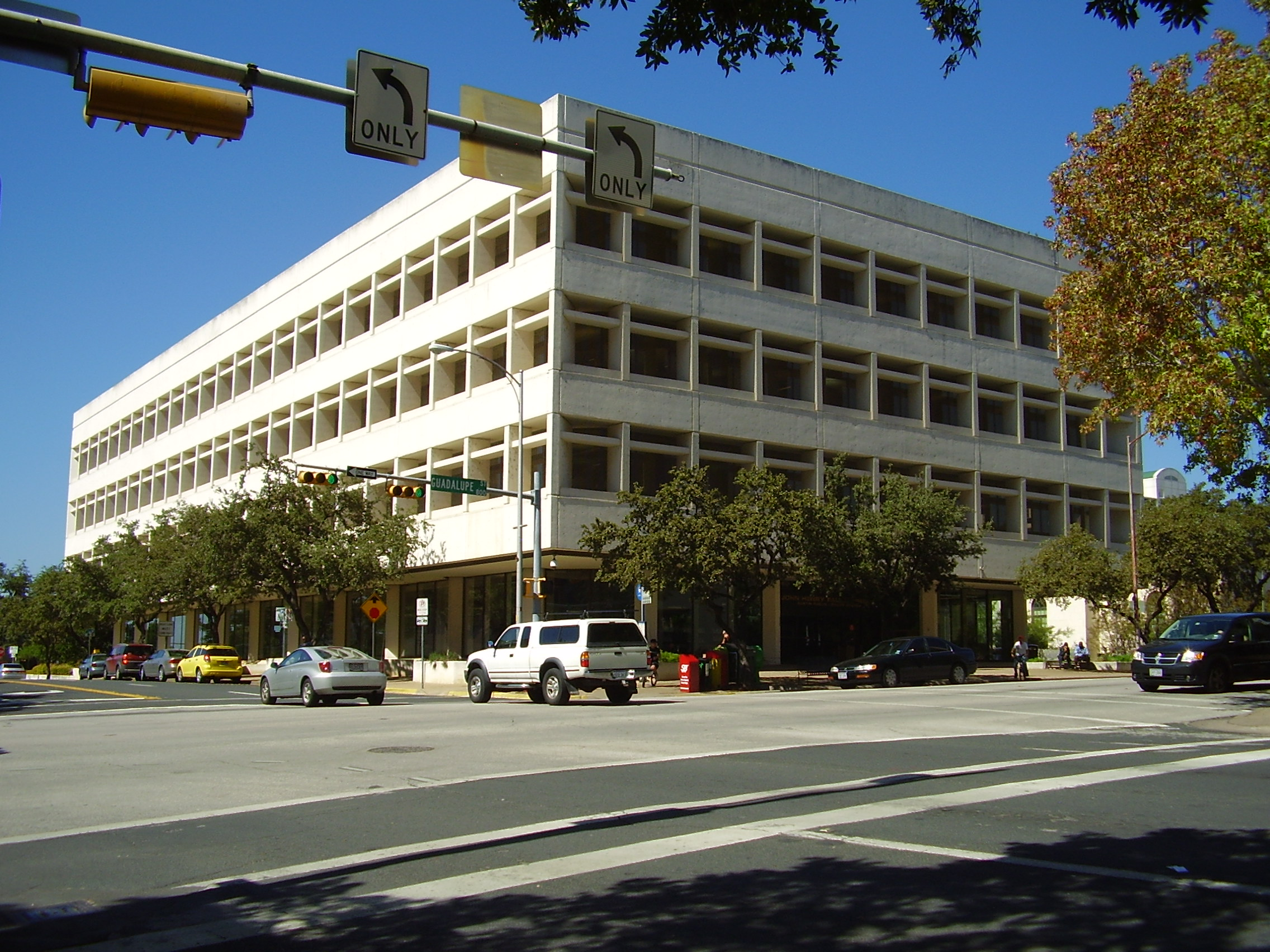 Faulk Library of Austin Public Library